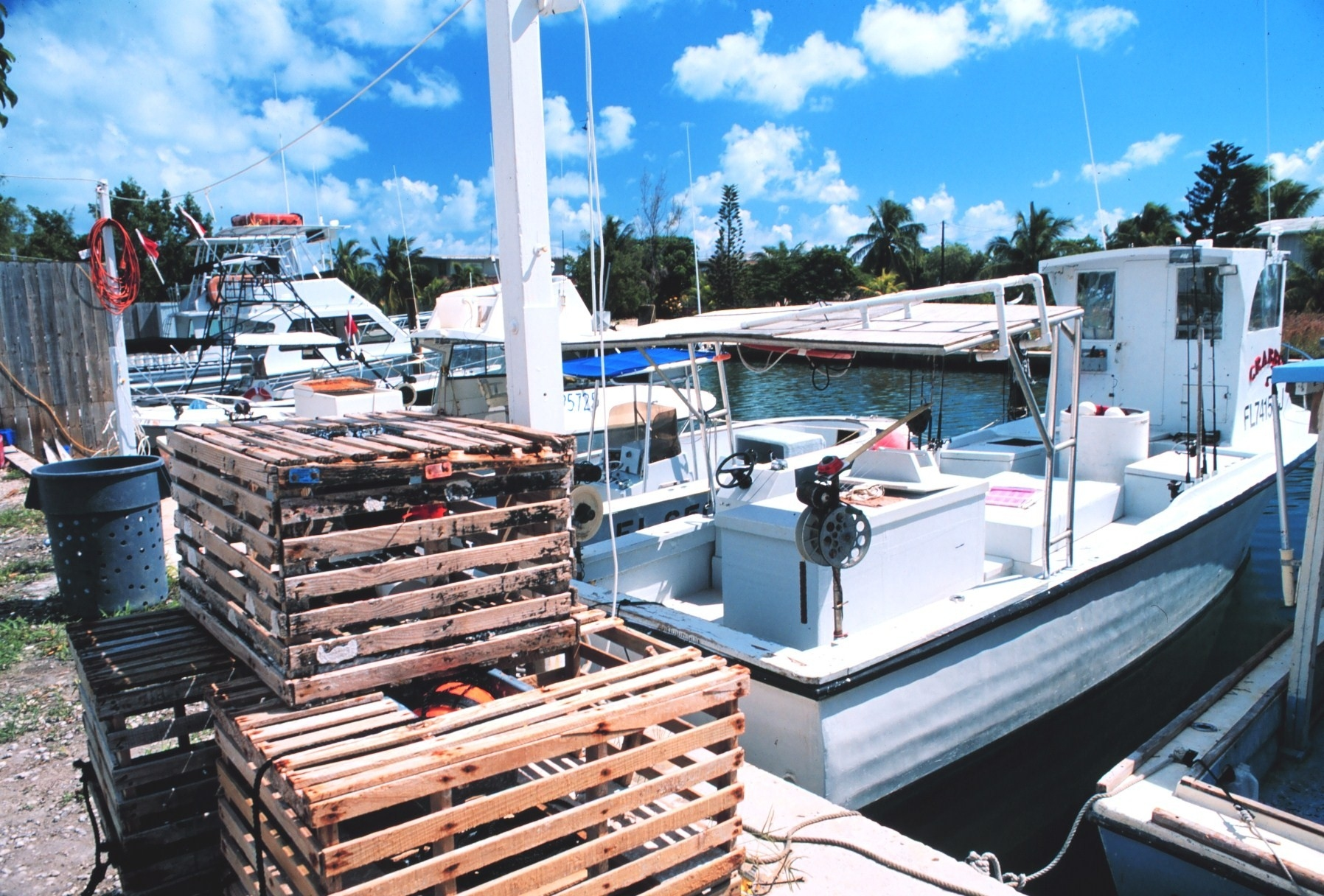 Stone crab pots and fishing boats work out of small inlets in the Florida Keys. Tavernier, Florida Keys, Florida.